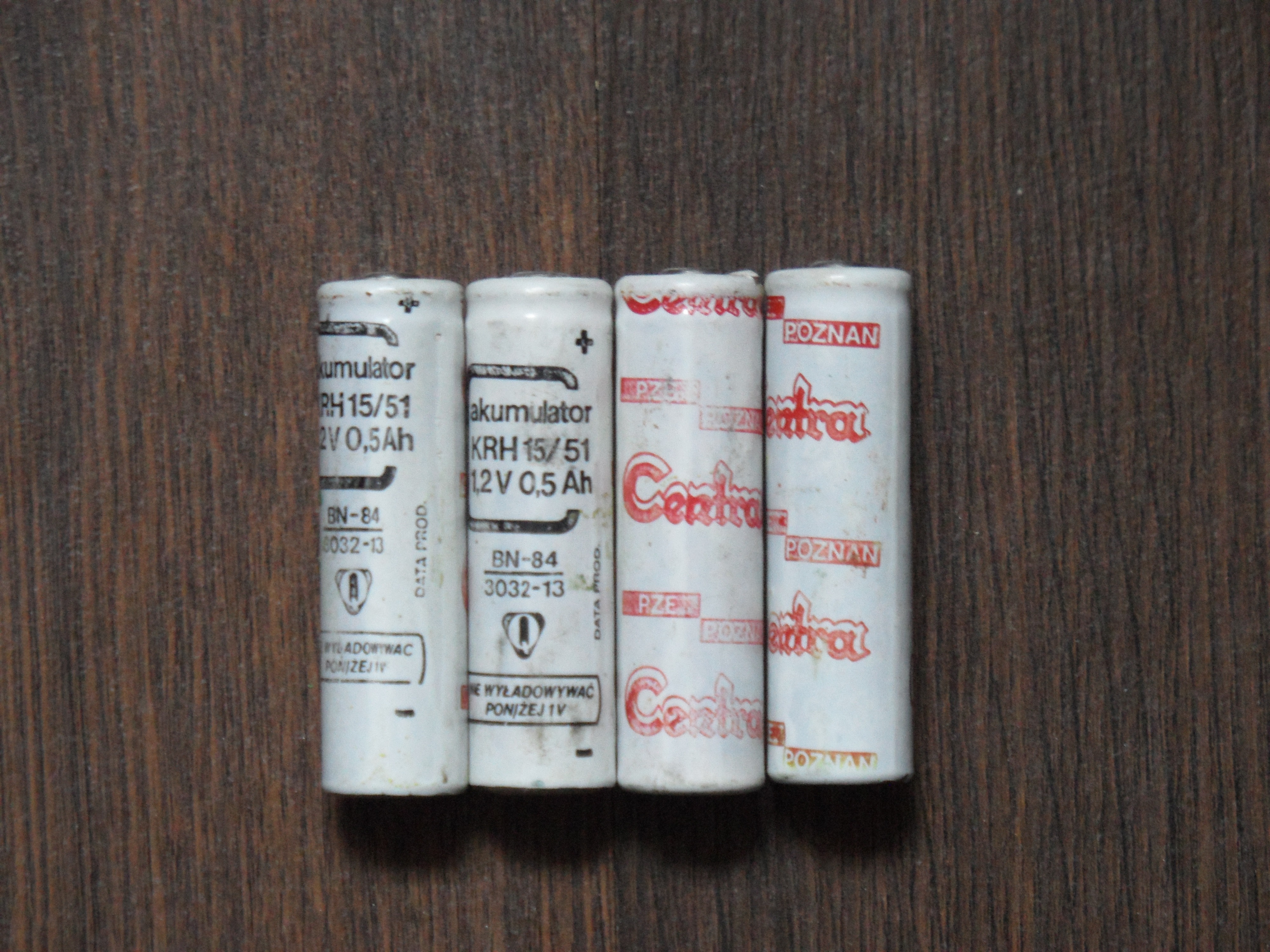 Ni-Cd batteries